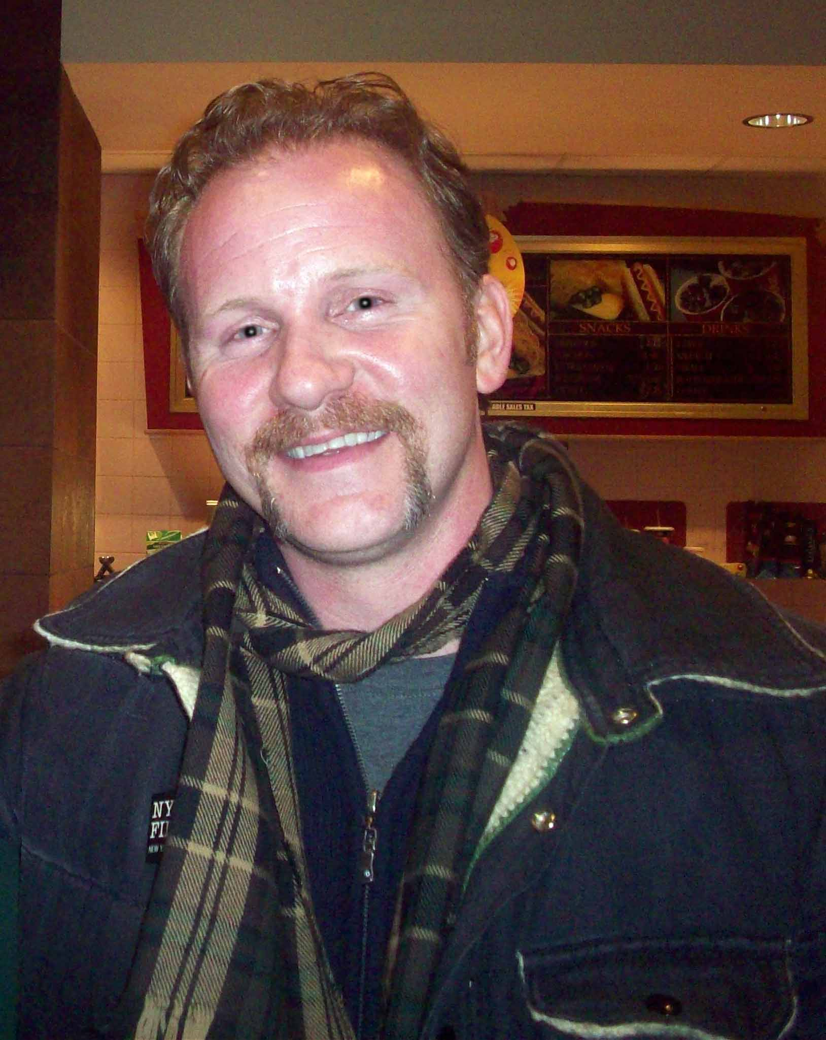 Morgan Spurlock at the Sundance Film Festival 2008. I've cropped myself out of this picture lol.